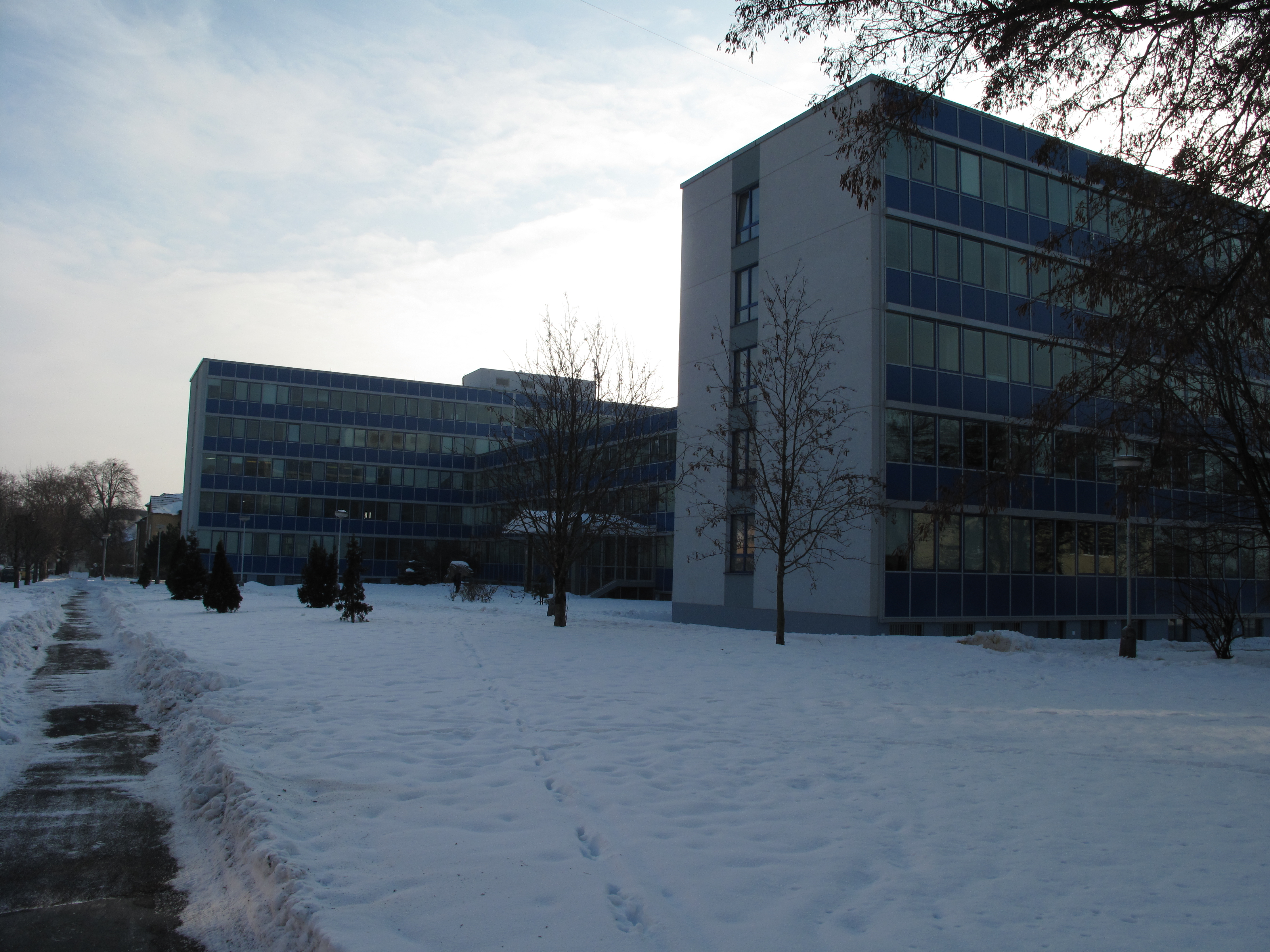 Building of Institute of Information Theory and Automation and Oriental Institute of Academy of Sciences of the Czech Republic, Prague-Kobylisy, Czech Republic.